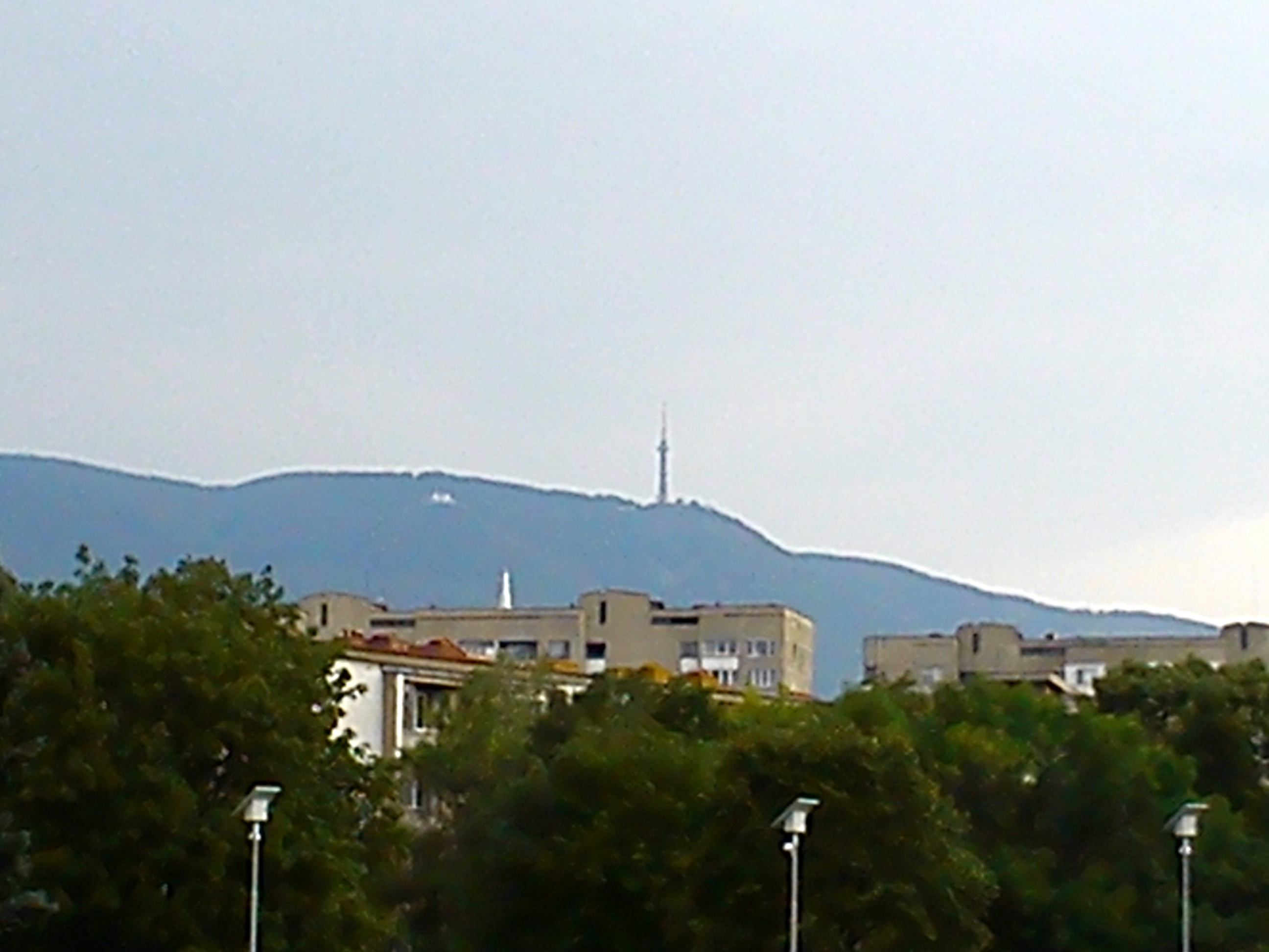 Kopitoto (mt Vitosha), view from Sofia